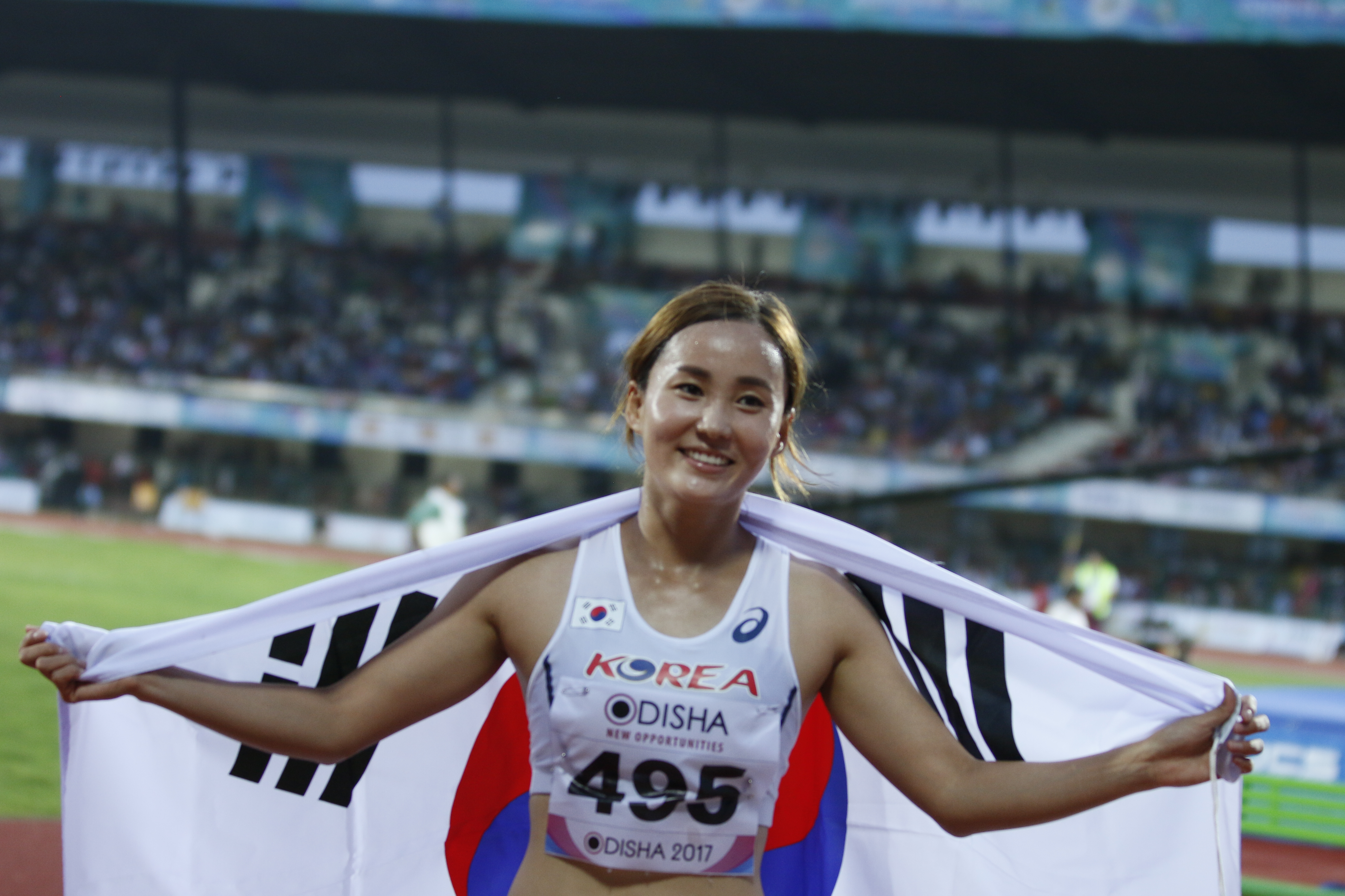 Jung Hye-lim from the 22nd Asian Games in Odisha. 2017 Asian Athletics Championships. 6 to 9 July 2017 at the Kalinga Stadium in Bhubaneswar